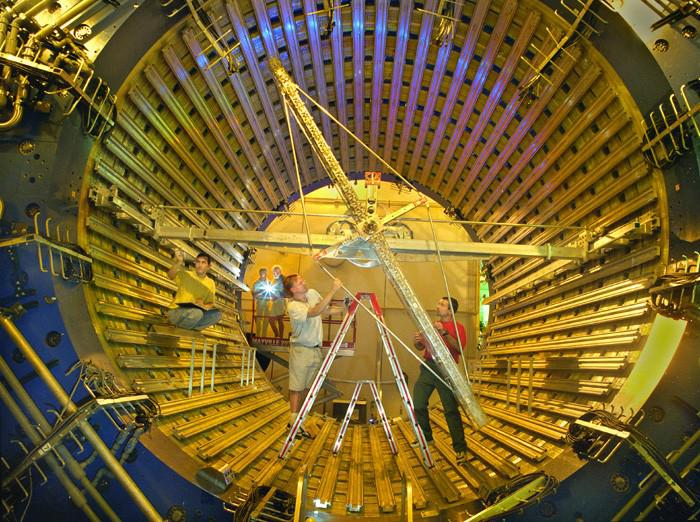 THE STAR DETECTOR AT BROOKHAVEN'S RELATIVISTIC HEAVY ION COLLIDER (RHIC). THE STAR DETECTOR, ONE OF FOUR AT THE RELATIVISTIC HEAVY ION COLLIDER, TRACKS AND ANALYZES THE THOUSANDS OF PARTICLES THAT MAY BE PRODUCED BY EACH GOLD ION COLLISION INSIDE THE DETECTOR. THE FIRST COLLISION TOOK PLACE ON JUNE 12, 2000, CONTRIBUTING TO THE FURTHER UNDERSTANDING OF THE FUNDAMENTAL NATURE OF MATTER. For more information or additional images, please contact 202-586-5251.